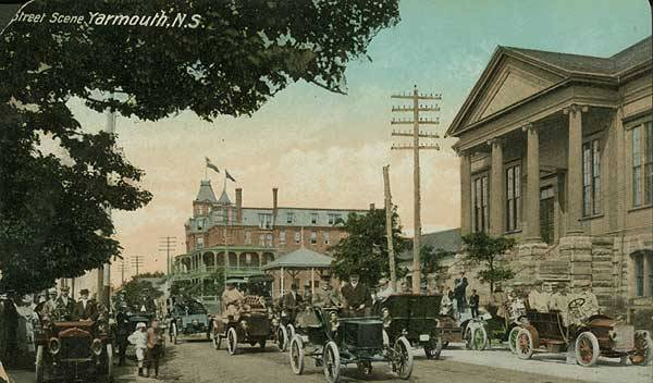 A postcard of Yarmouth, Nova Scotia showing the street scene with the Grand Hotel in the background.